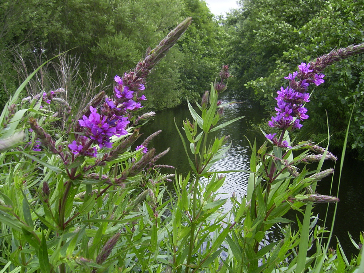 Lythrum salicaria, Gouda, Netherlands